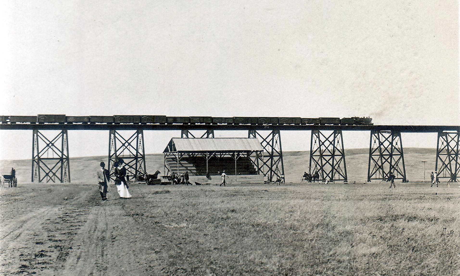 High Bridge of the Northern Pacific over Sheyenne River in Valley City, North Dakota